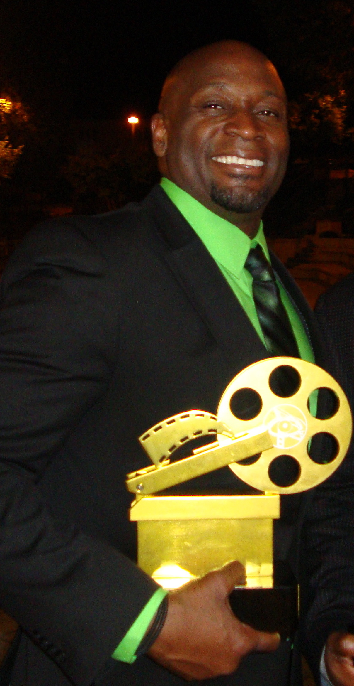 2012 Nollywood Film Critics Award (NAFCA) Winner: Best Actor – Diaspora, Unwanted Guest - Chet Anekwe